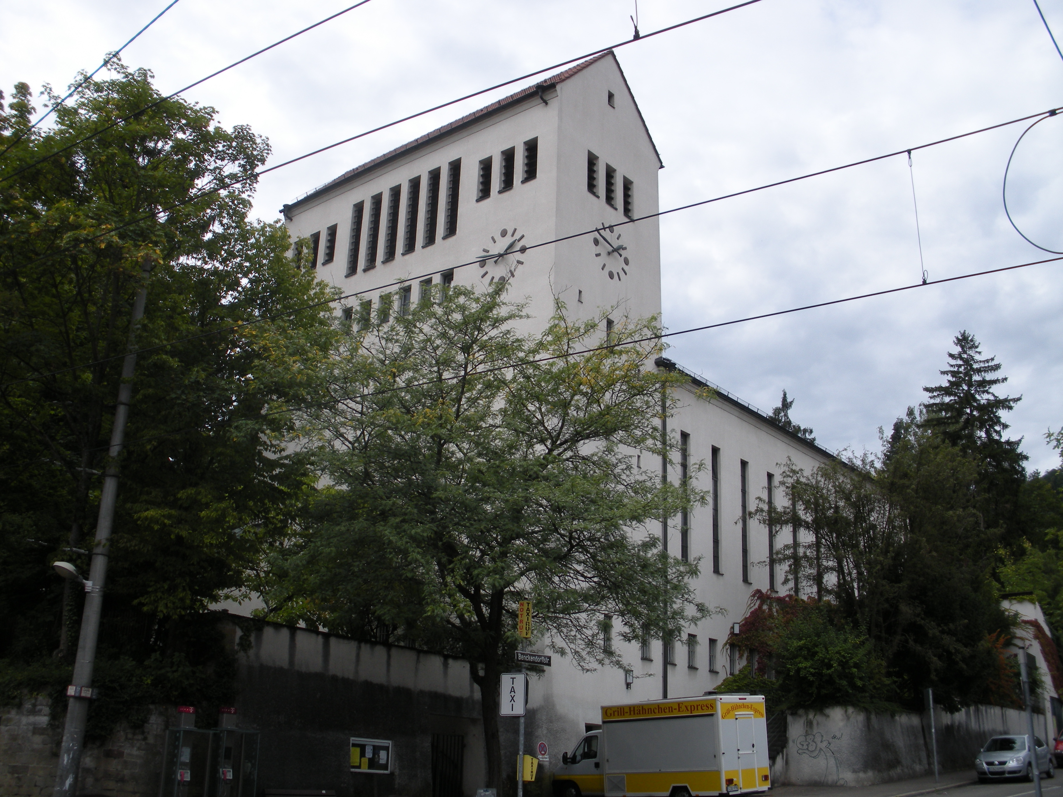 Protestant Church of Cross in Stuttgart-South (Heslach)